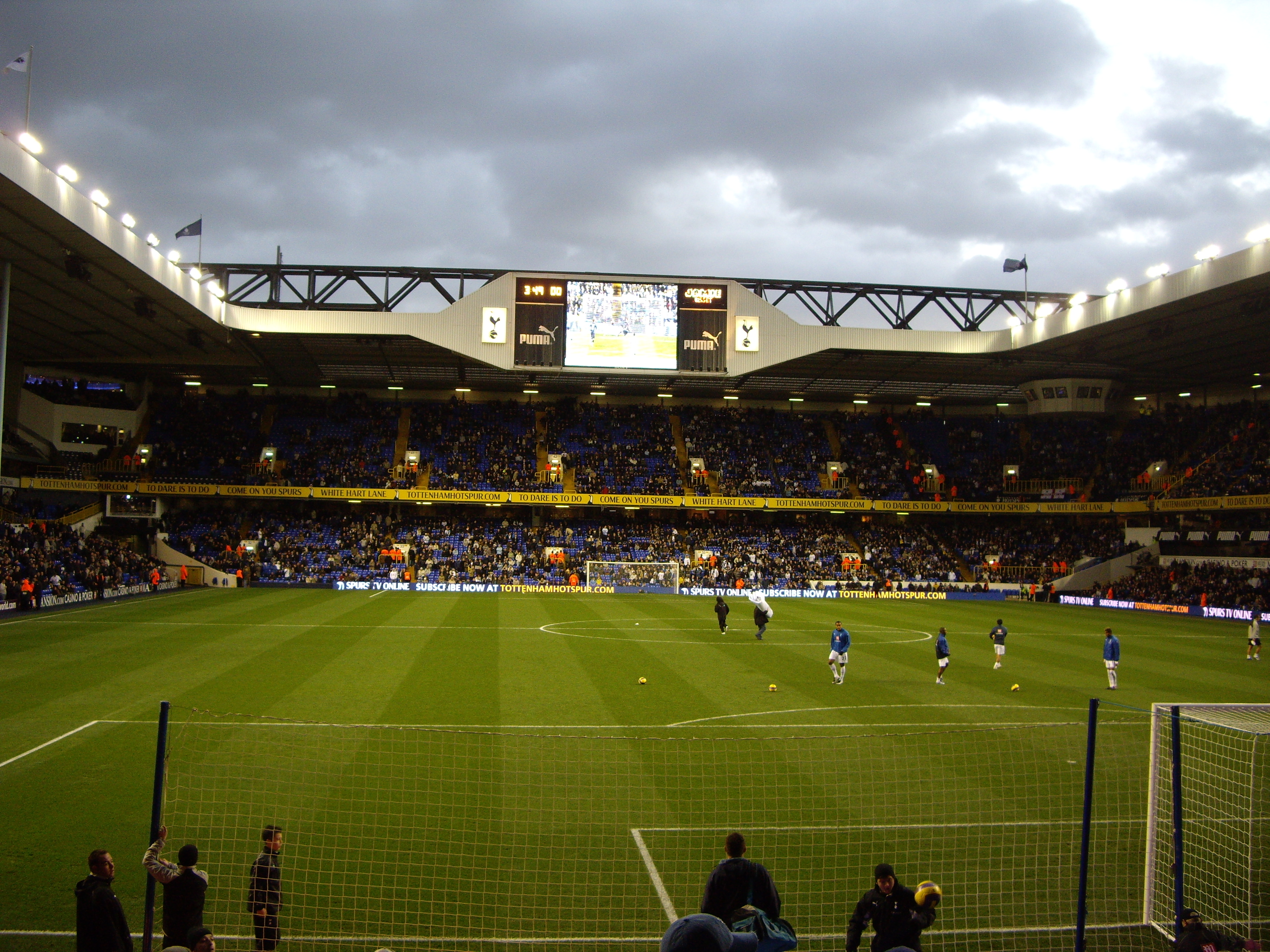 Tottenham warm up